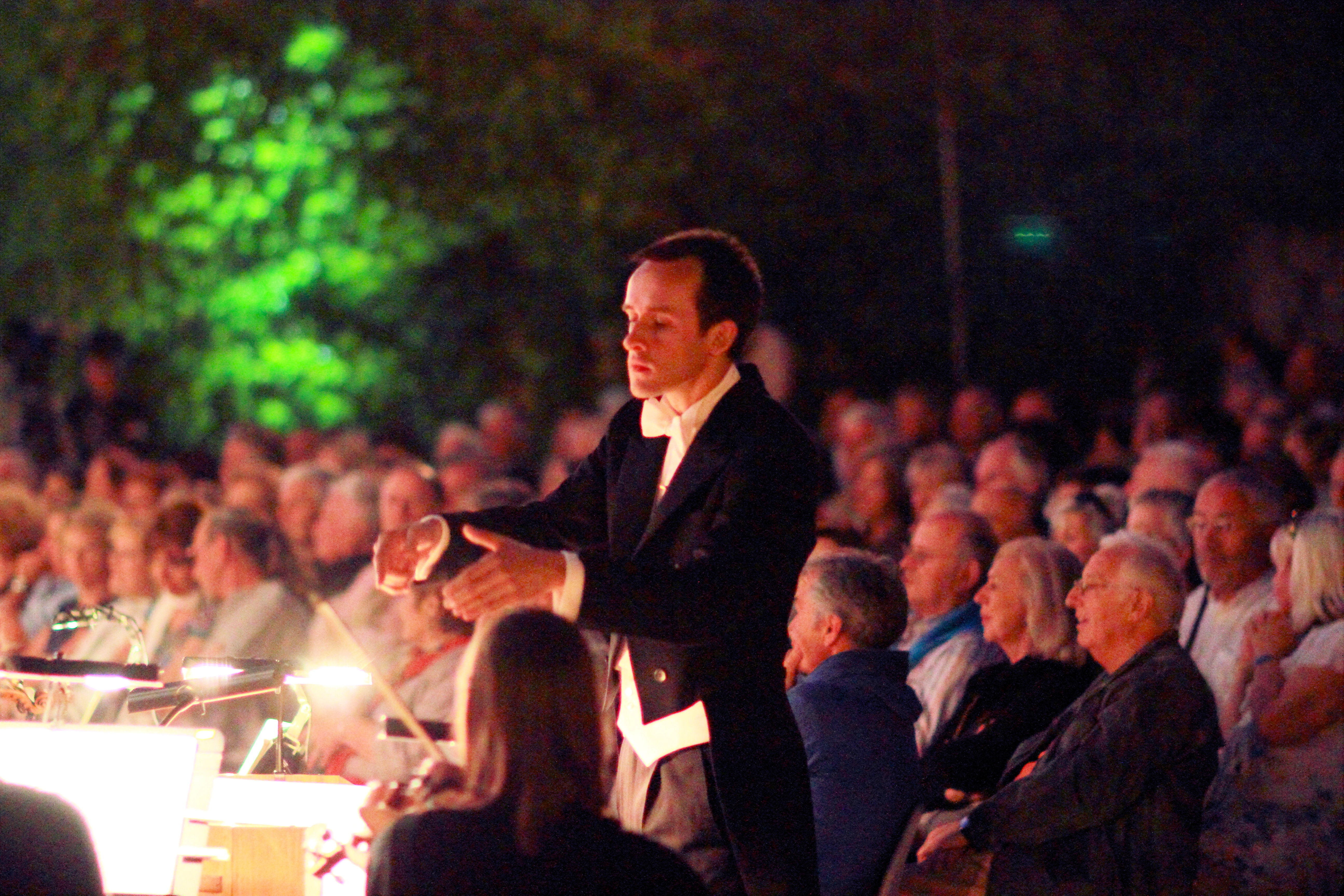 Graham Ross conducting with the opera audience in the backgtround, Musique-Cordiale Festival 2010